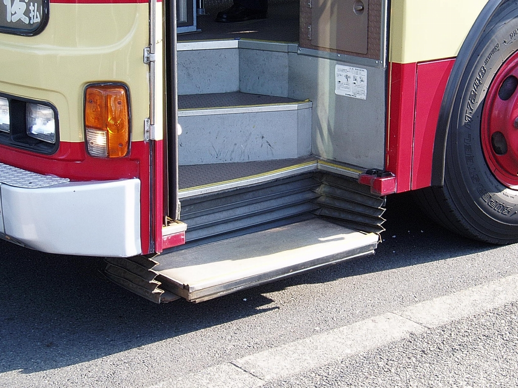 Example of setting up lift on front door (Kanagawa Chuo Kotsu)